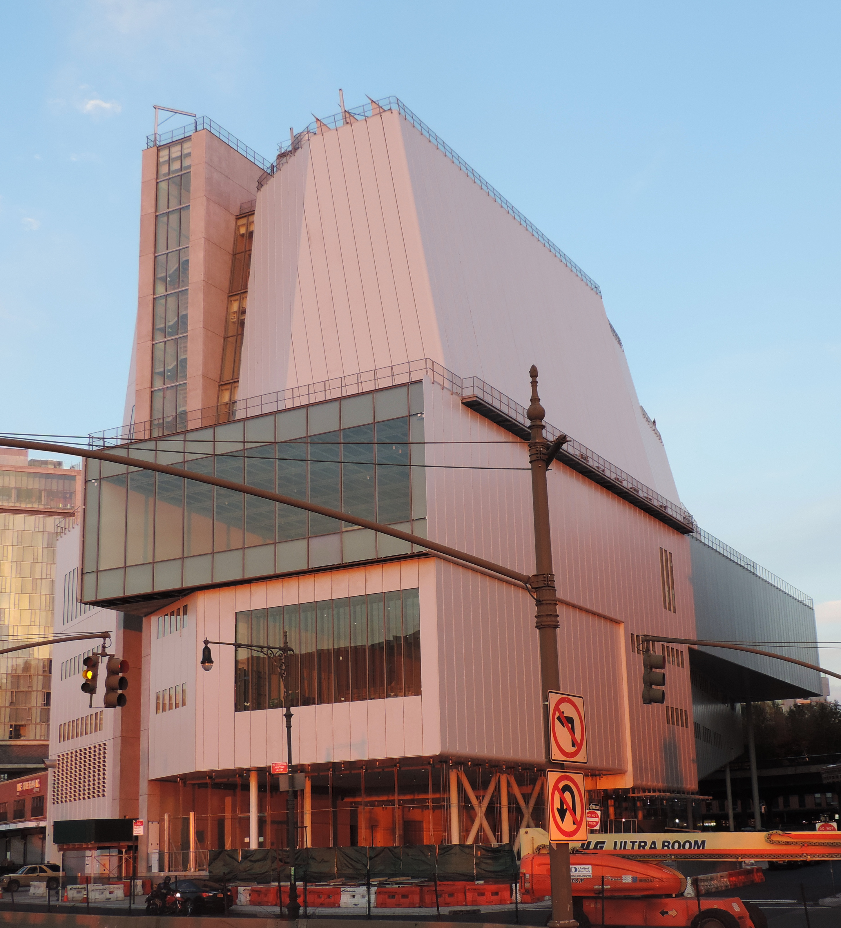 Looking east as the Sun lowers, at new museum across the highway.